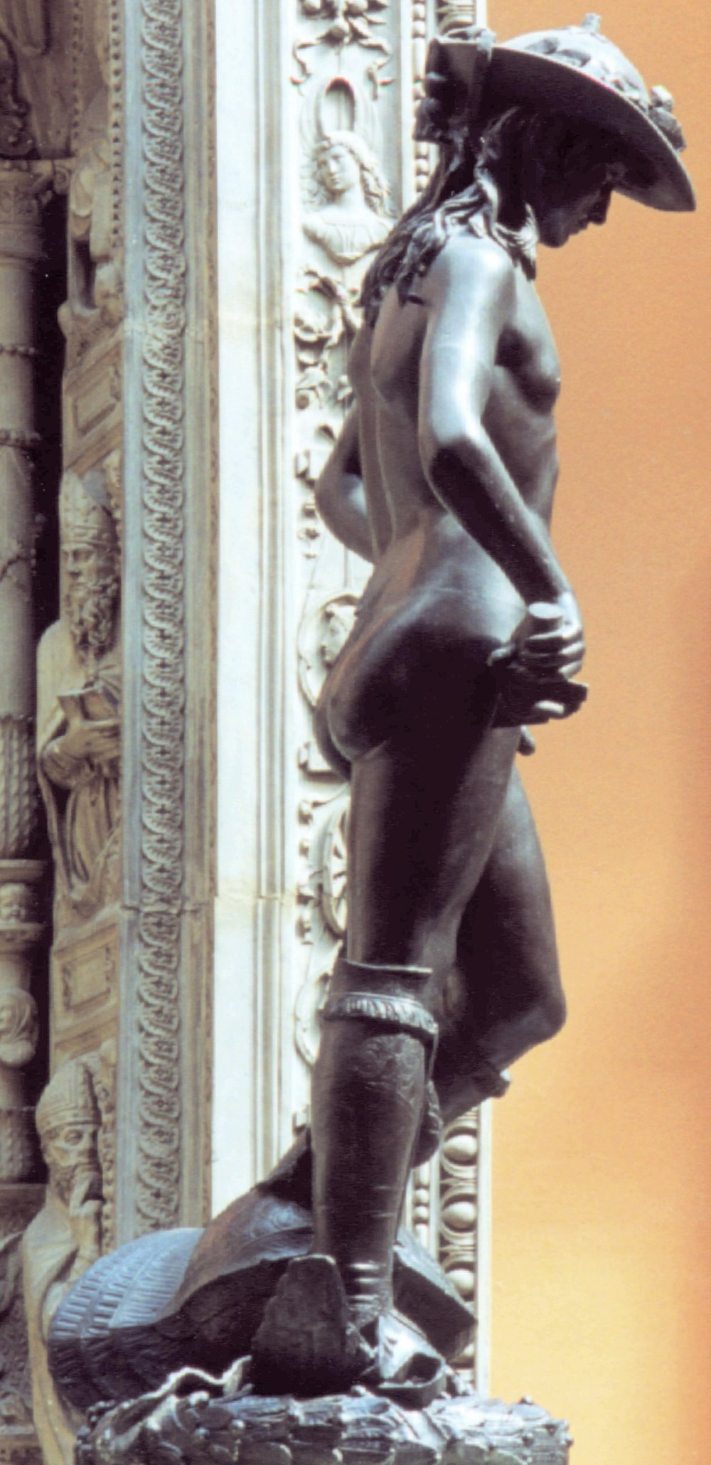 Painted plaster replica of Donatello's bronze David in the Cast Courts of the Victoria and Albert Museum, London. Right side view. Note broken sword, seams between plaster sections, and small projection behind right shoulder which is not a feature of the original. Photo by User:Lee M, 2000. Time exposure, skylight. Brightness and contrast manipulated for clarity.